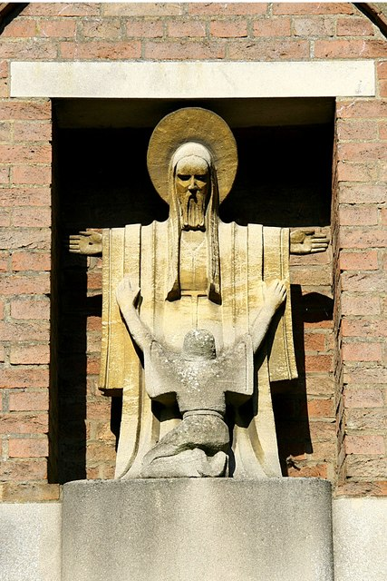 Doubting Thomas Figure above the south door of St.Thomas' church. Portland Stone carving showing St.Thomas kneeling to the risen Christ, by Philip Pape in 1956